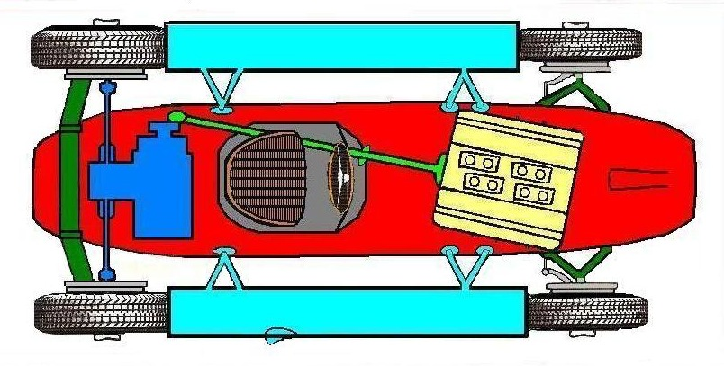 A plan view of the layout of a Lancia D50 Formula One racing car. Original French text cropped out for international usage (see original image). The English translation [additions in parentheses are mine] reads: "The Architecture of the Lancia D50. The front mid-mounted V8 engine [yellow] is inclined at 12° relative to the long axis of the car. The driveshaft [light green] passes to the left of the driver's seat [brown]. The fuel tanks [light blue] are located between the wheels, separated from the rest of the fuselage [red]." Other coloured items not noted are the gearbox and halfshafts [dark blue] and the suspension assemblies [dark green].